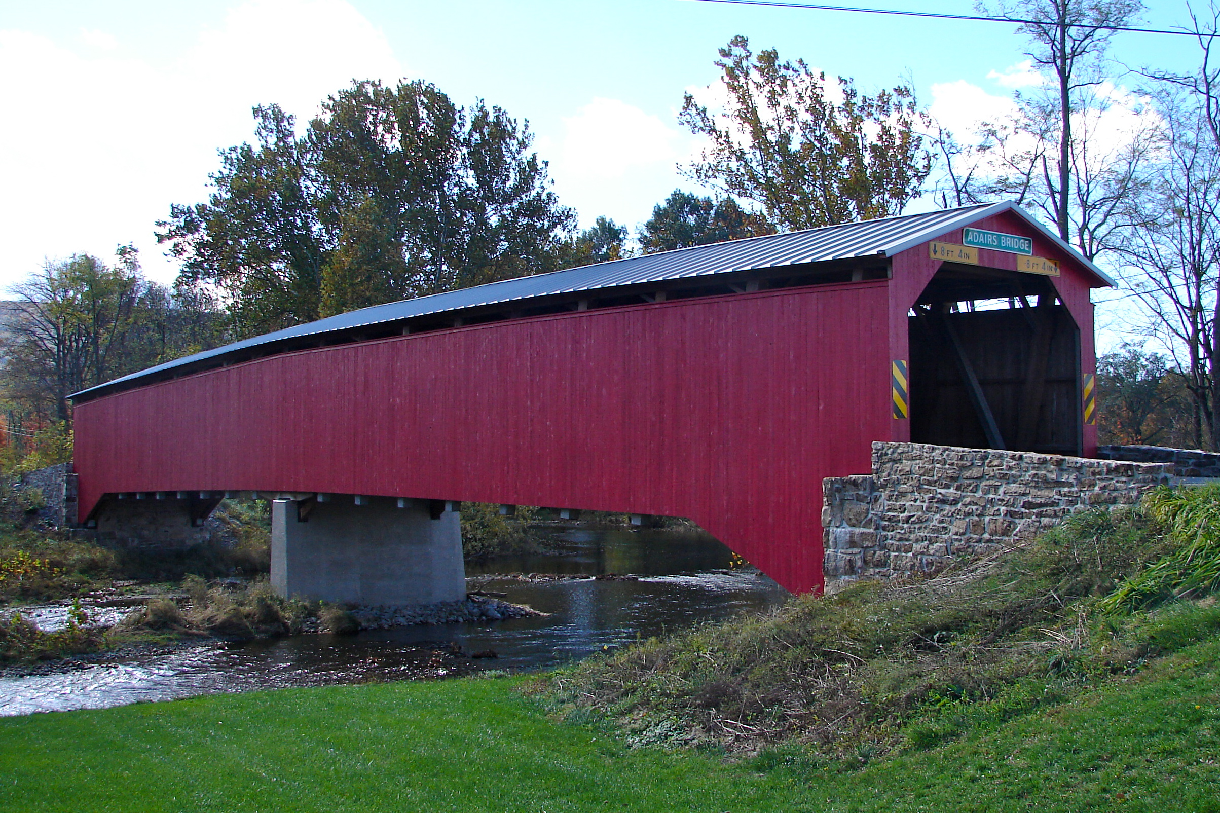 Adairs Covered Bridge on the NRHP since August 25, 1980. East of Andersonburg on Legislative Route 50009 in Southwest Madison Township, Perry County, Pennsylvania.